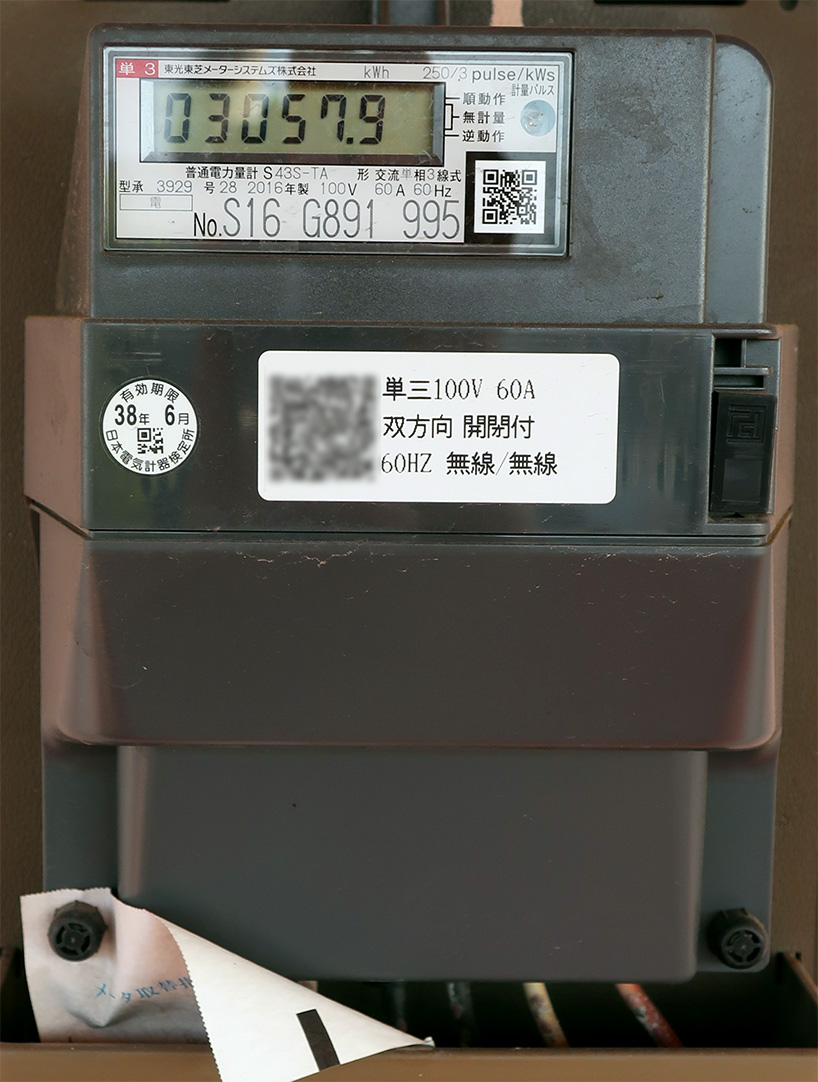 Smart meter placed in a home by Chubu Electric Power in Japan.